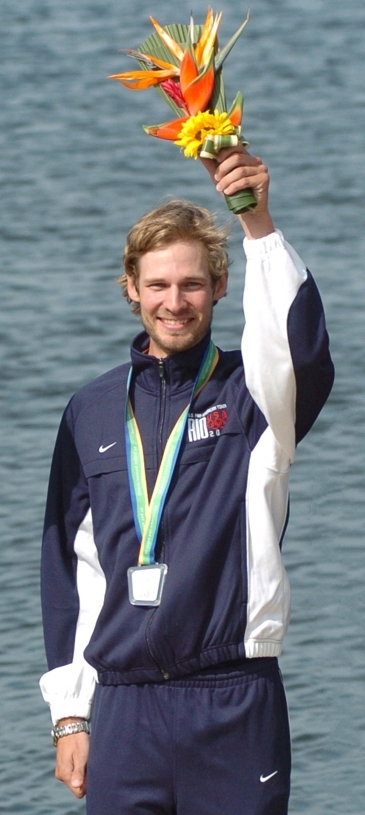 Bjorn Larsen celebrates winning silver medals in the lightweight men's four event July 19 at the XV Pan American Games in Rio de Janeiro, Brazil.